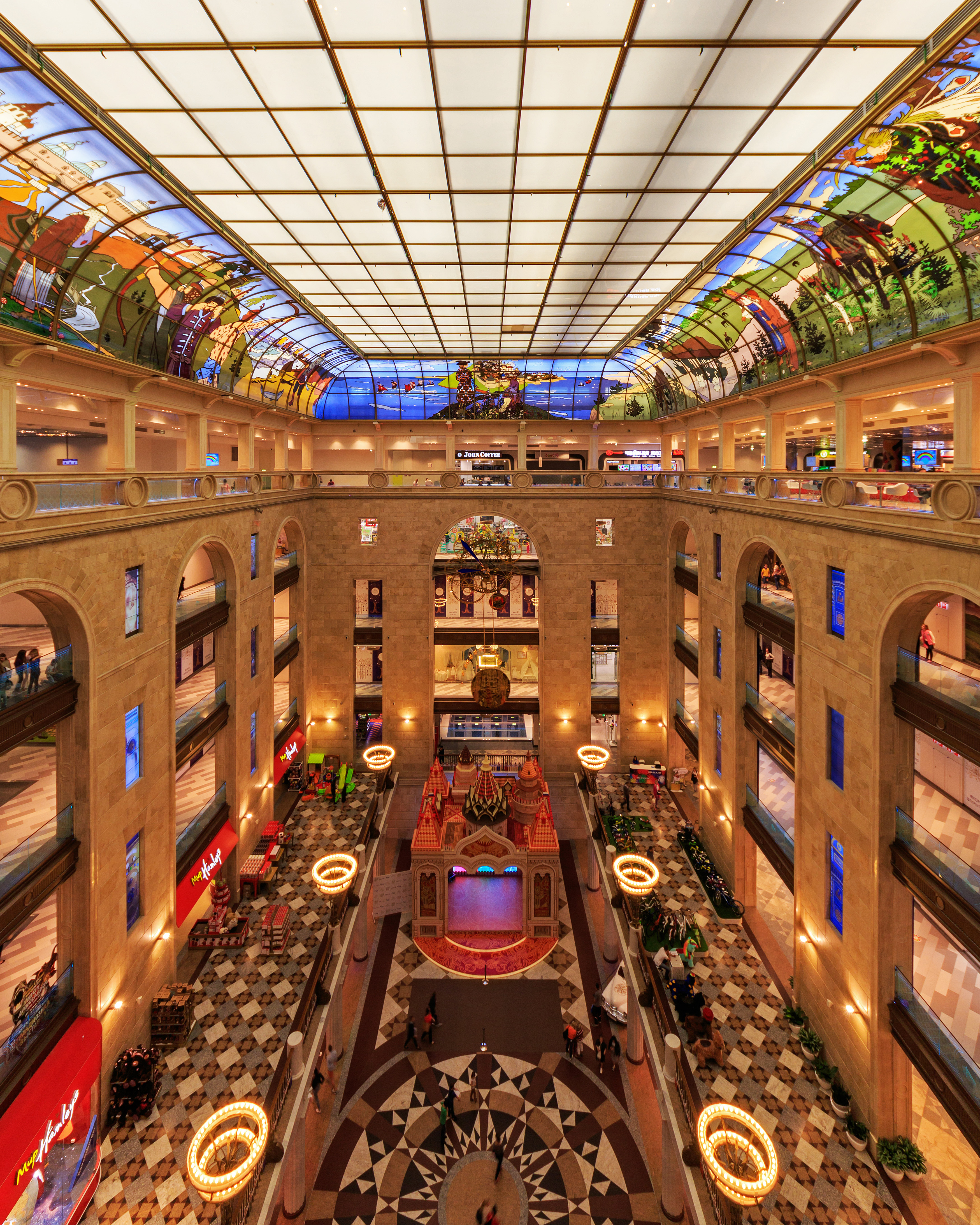 Interior of the Central Children’s Store at Lubyanka Square in Moscow